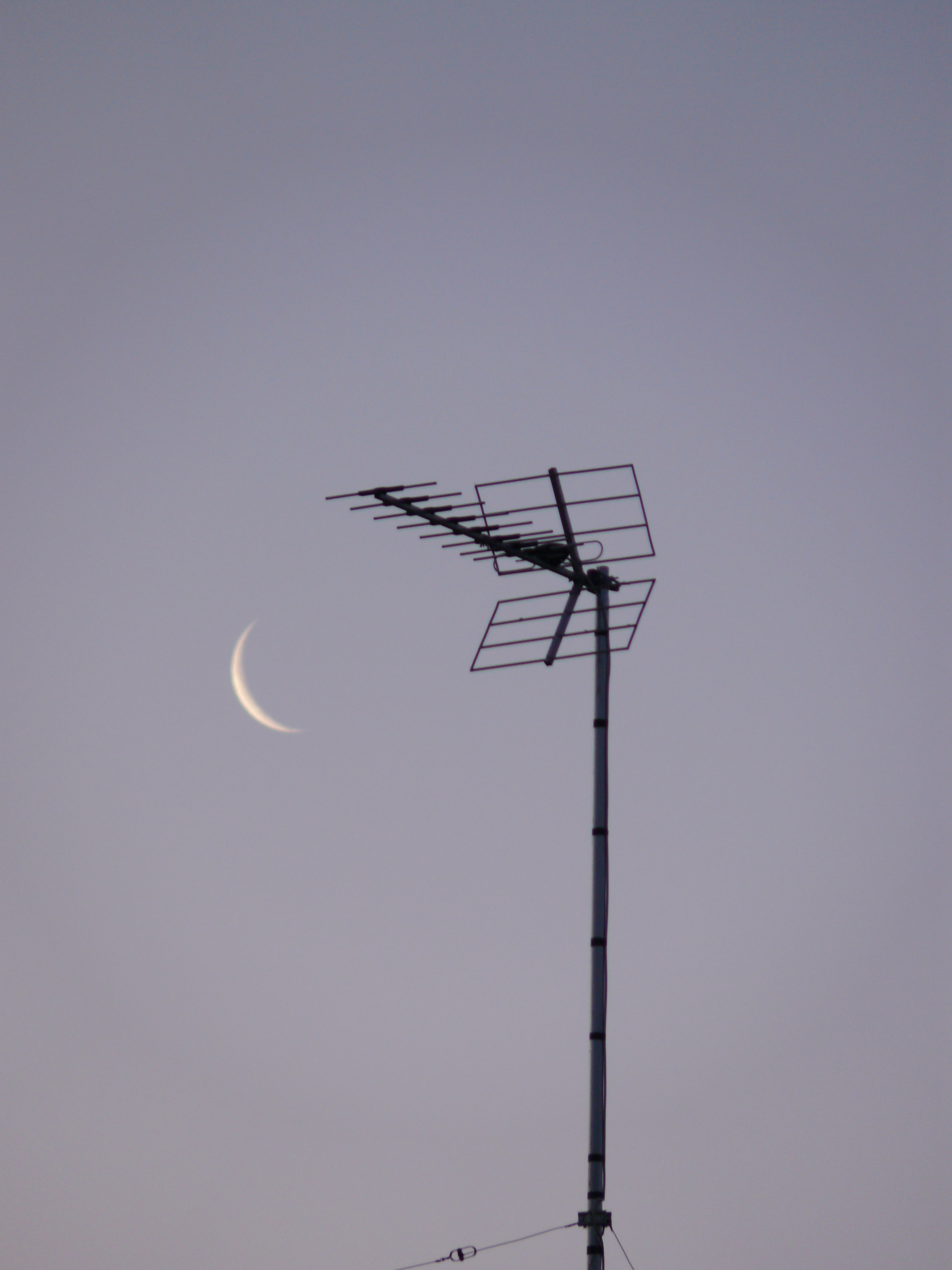 Waning moon over La Peyrade (Frontignan).